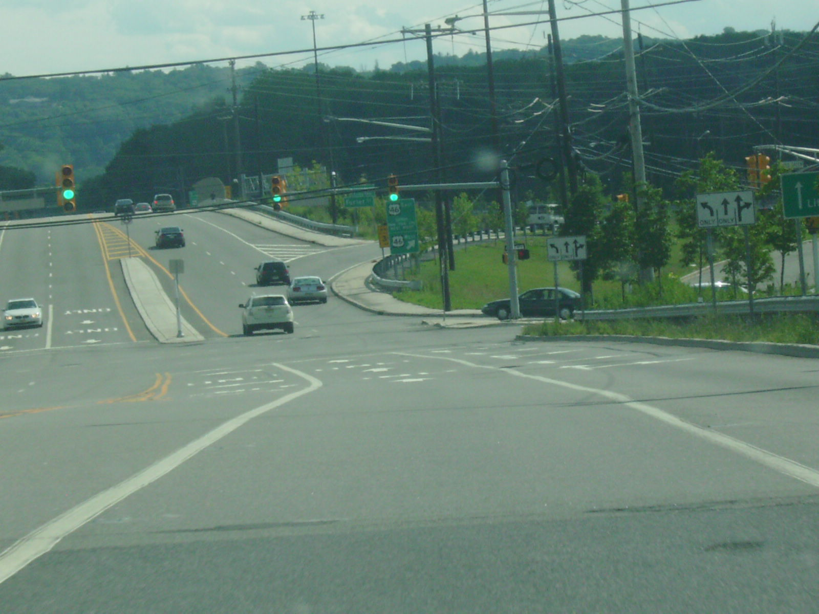 Route 62 heading southbound towards the U.S. Route 46 interchange in Totowa.